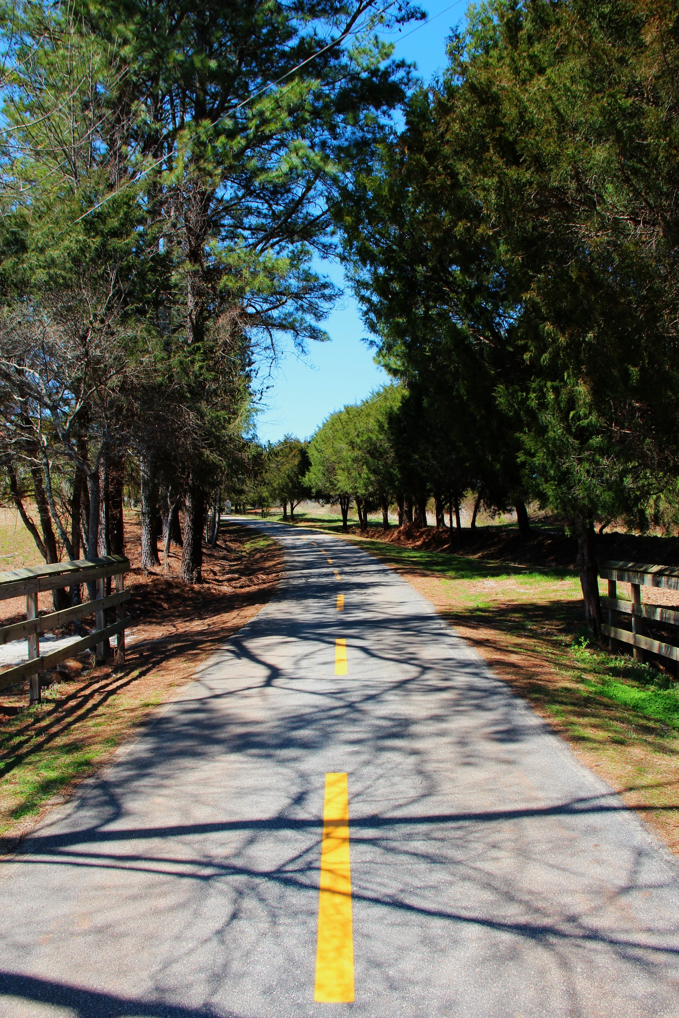 Path Foundation trail along Alexander Lake, Rockdale County, Georgia